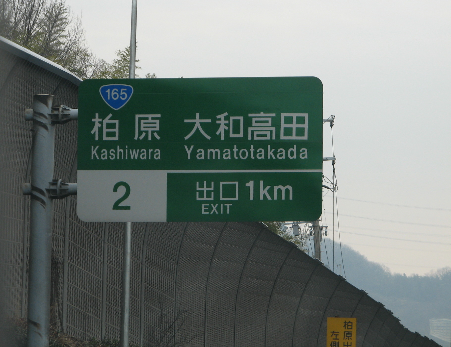 Kashiwara IC